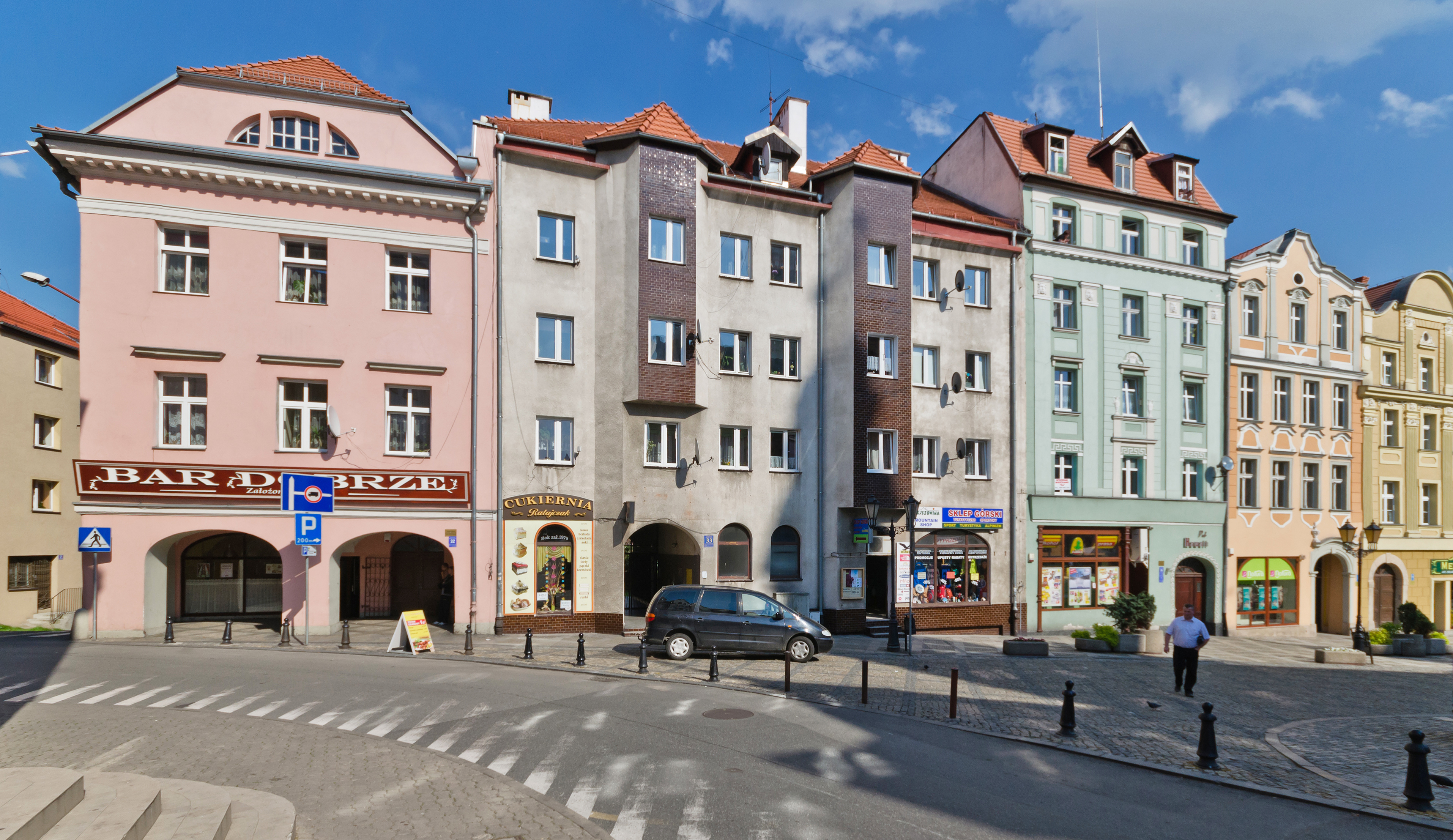 Estern frontage of the market square in Kłodzko